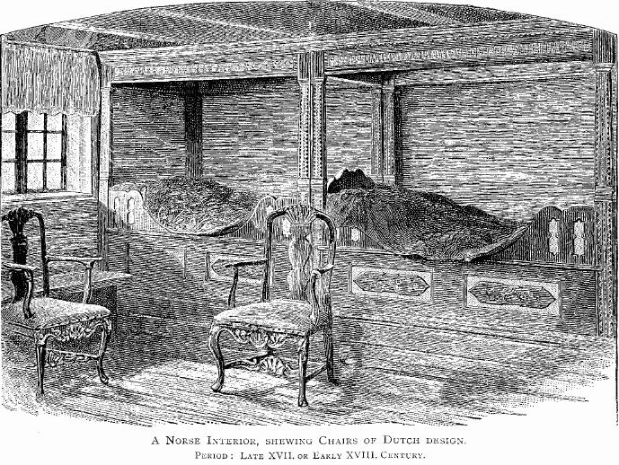 Illustration from Illustrated History of Furniture, From the Earliest to the Present Time from 1893 by Litchfield, Frederick, (1850-1930).Caption reads: A norse interior, shewing chairs of Dutch designPeriode: Late XVII, or early XVIII century